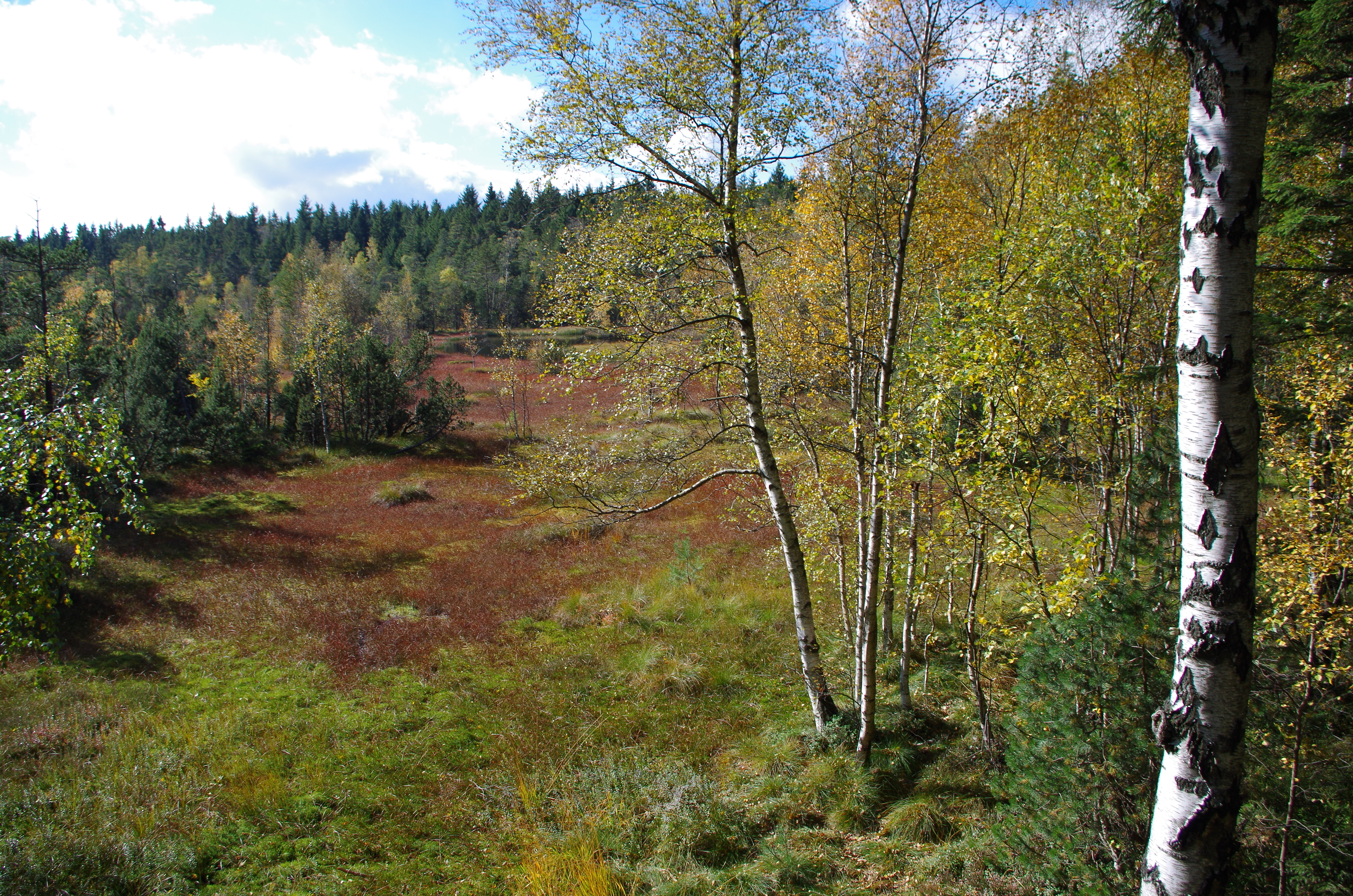 view from the observation plattform to the Hormersdorfer Hochmoor; "Hormersdorfer Hochmoor" nature reserve in Zwönitz, Saxony, Germany